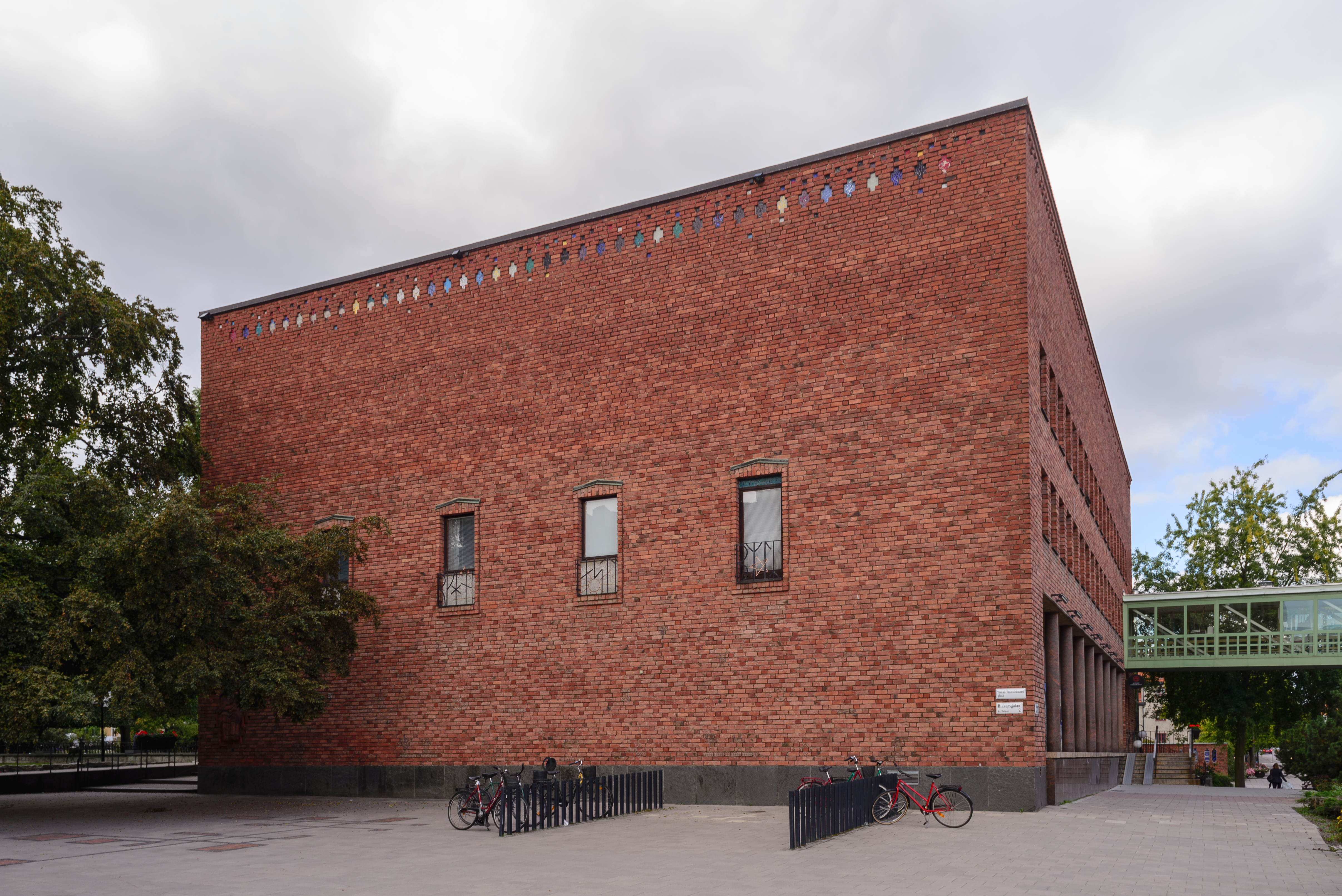 Västerås city library.